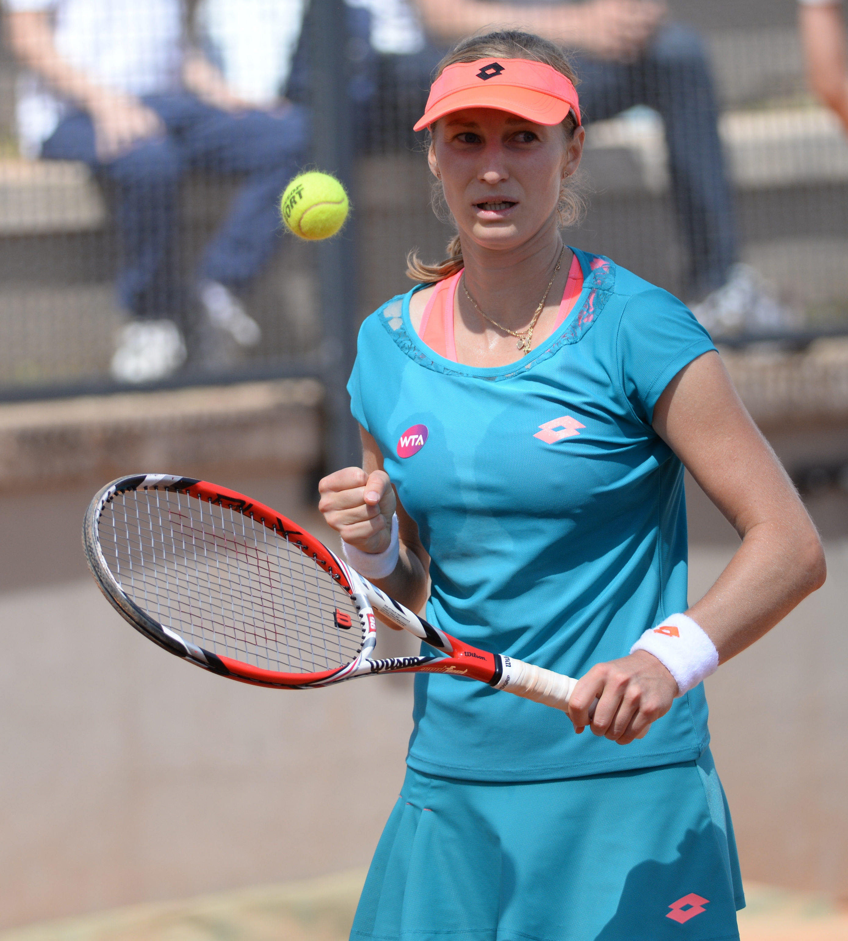 Ekaterina Makarova at the 2015 Internazionali BNL d'Italia